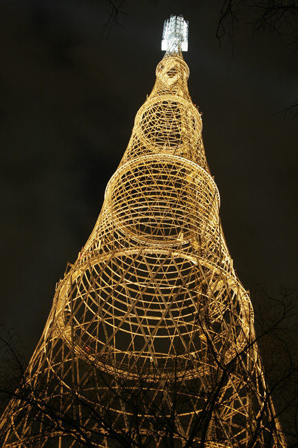 Shukhov Tower — Moscow.